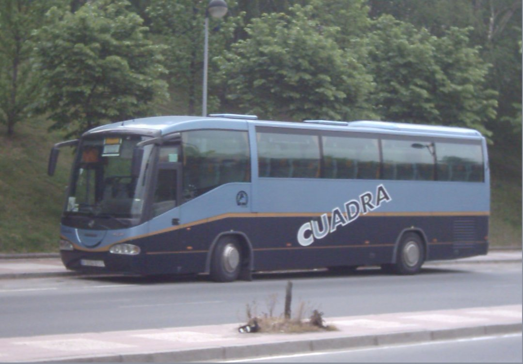 Irizar New Century bus with Scania chassis in Spain. CUADRA operator?